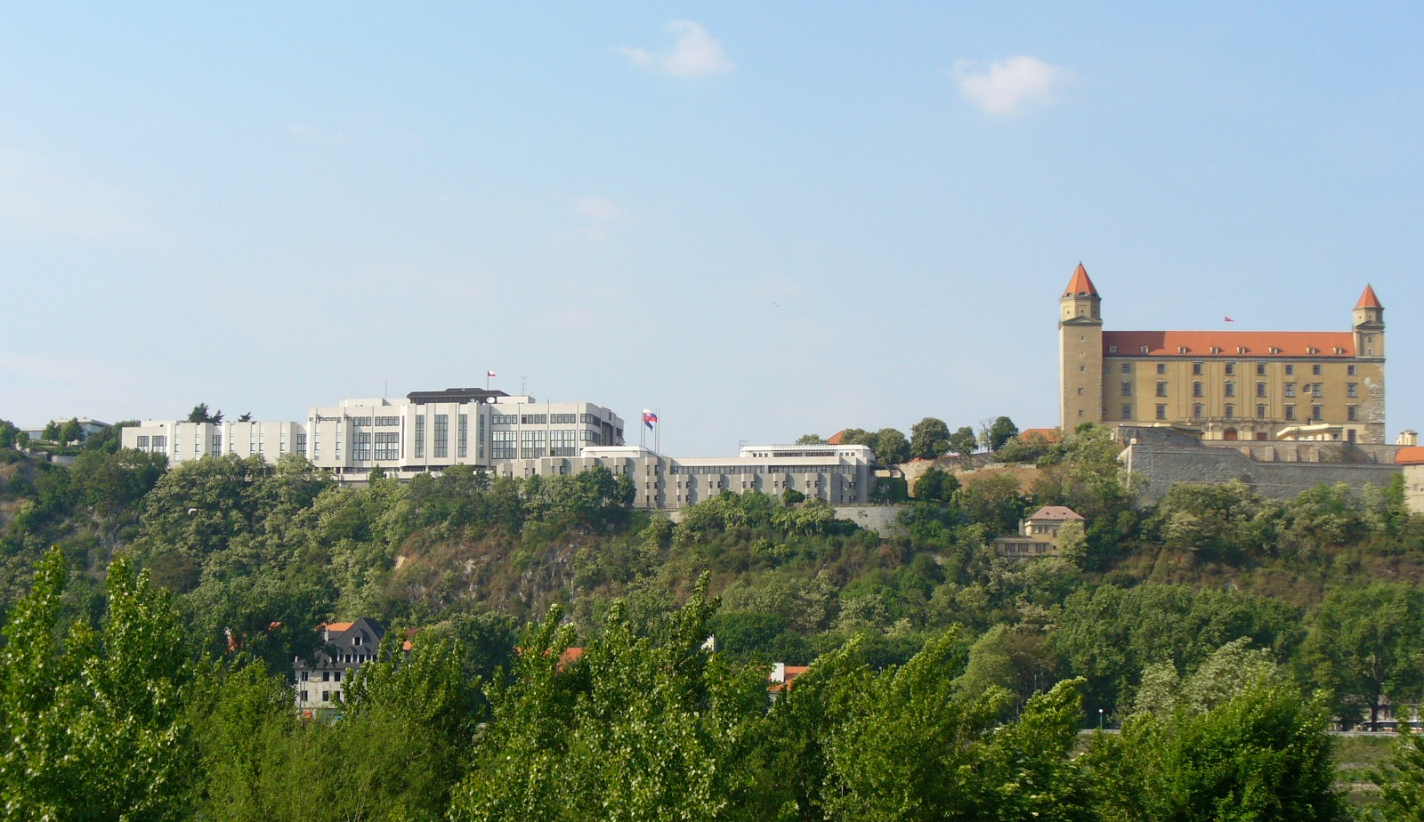 National Council of the Slovak Republic and Bratislava Castle 01